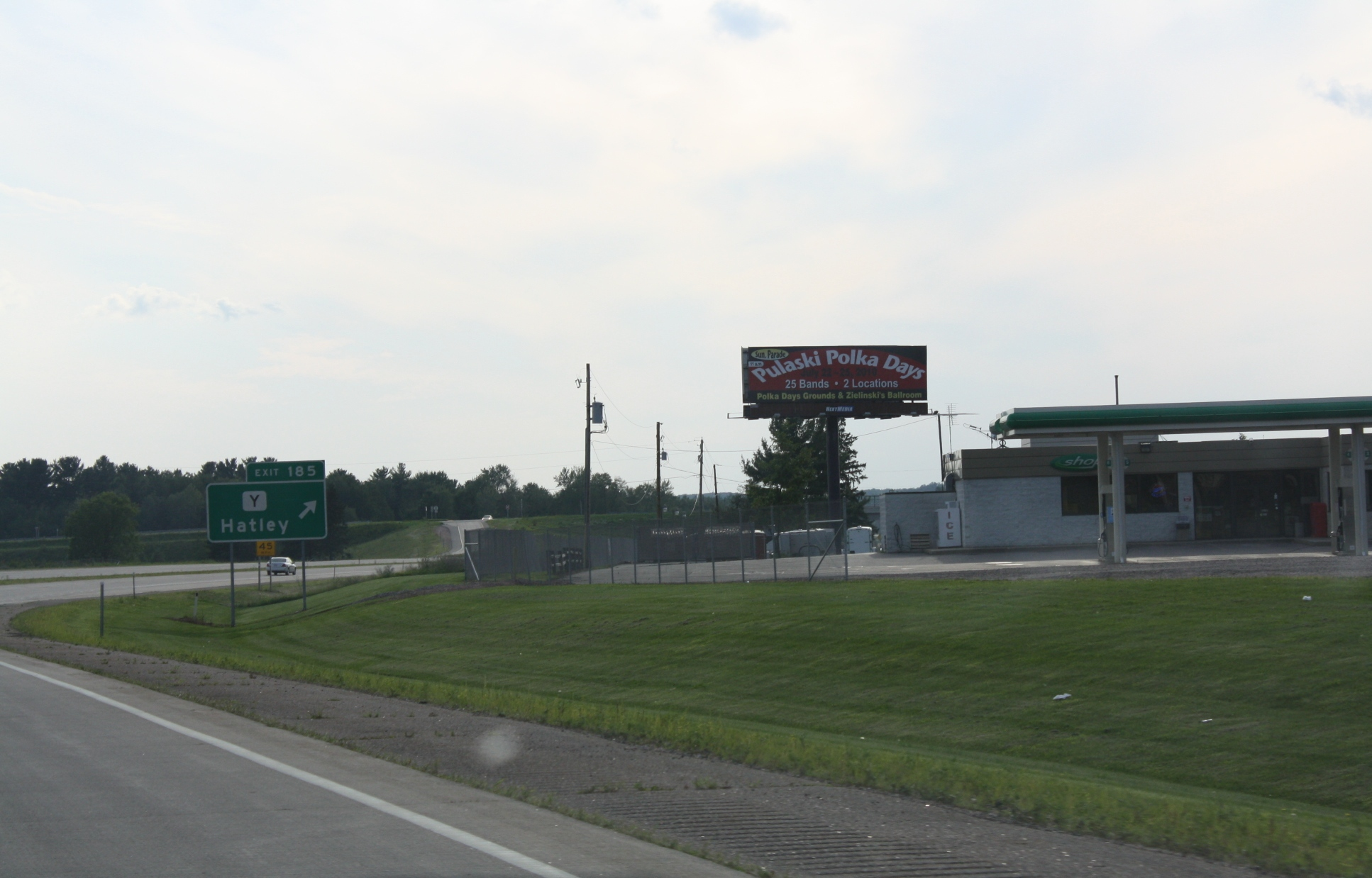 Looking west at the sign for Hatley, Wisconsin along Wisconsin Highway 29.